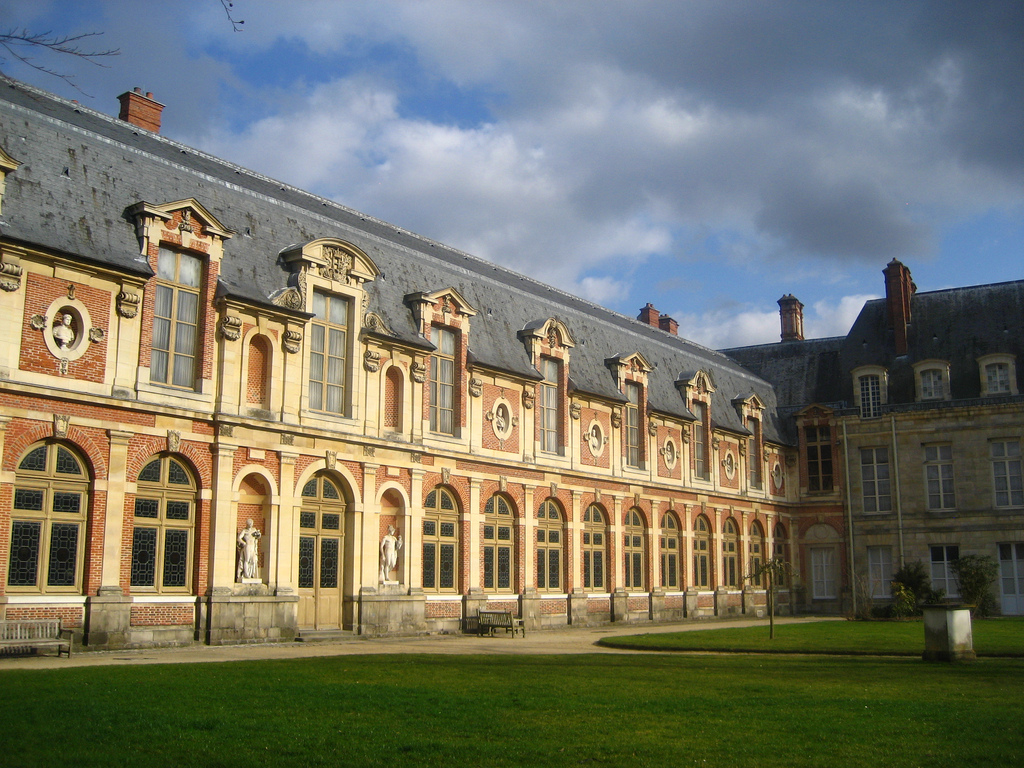 Aile de la Galerie de Diane du château de Fontainebleau